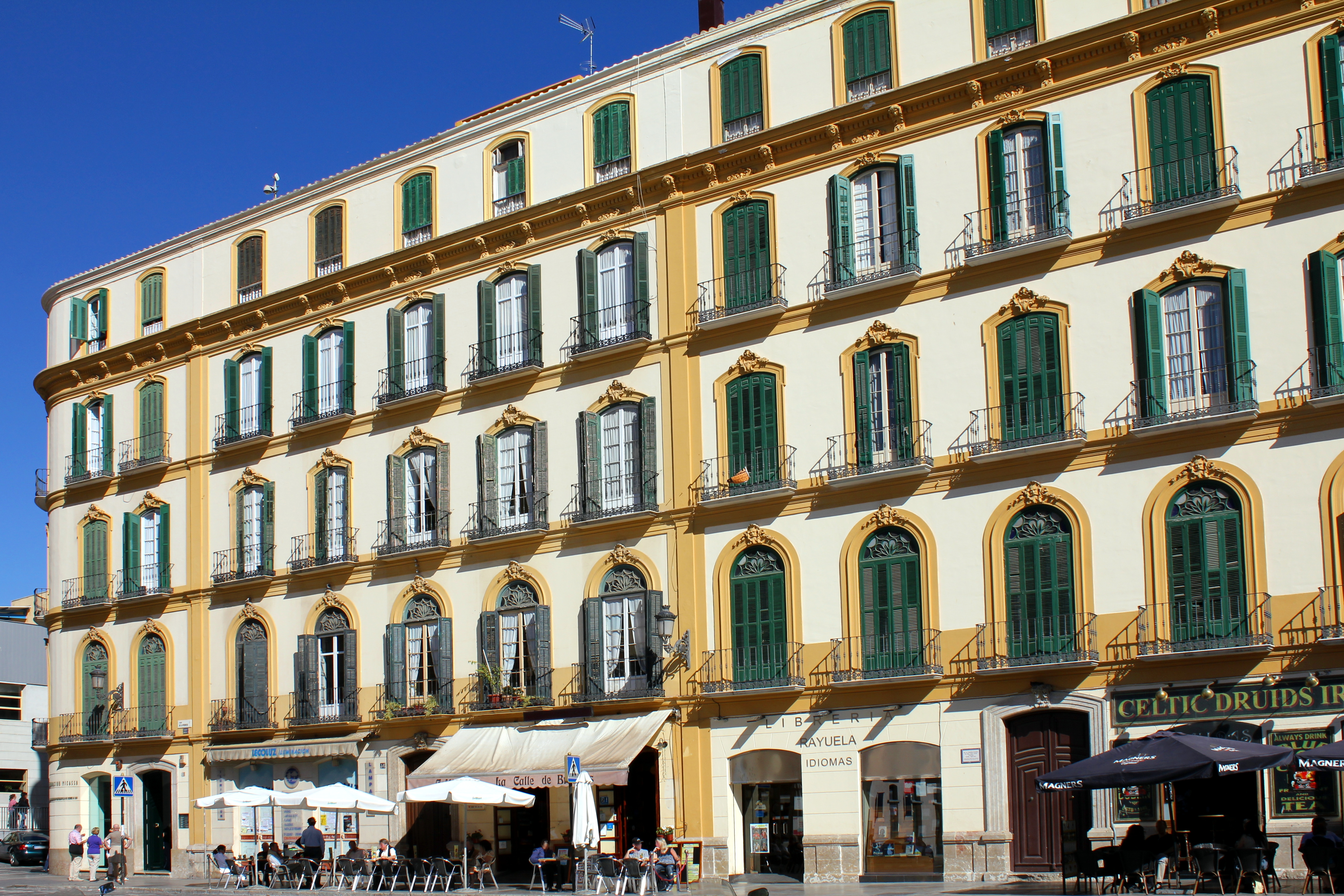 Birthplace of Pablo Picasso (the house to the left, Plaza de la Merced 15, Málaga, Spain)